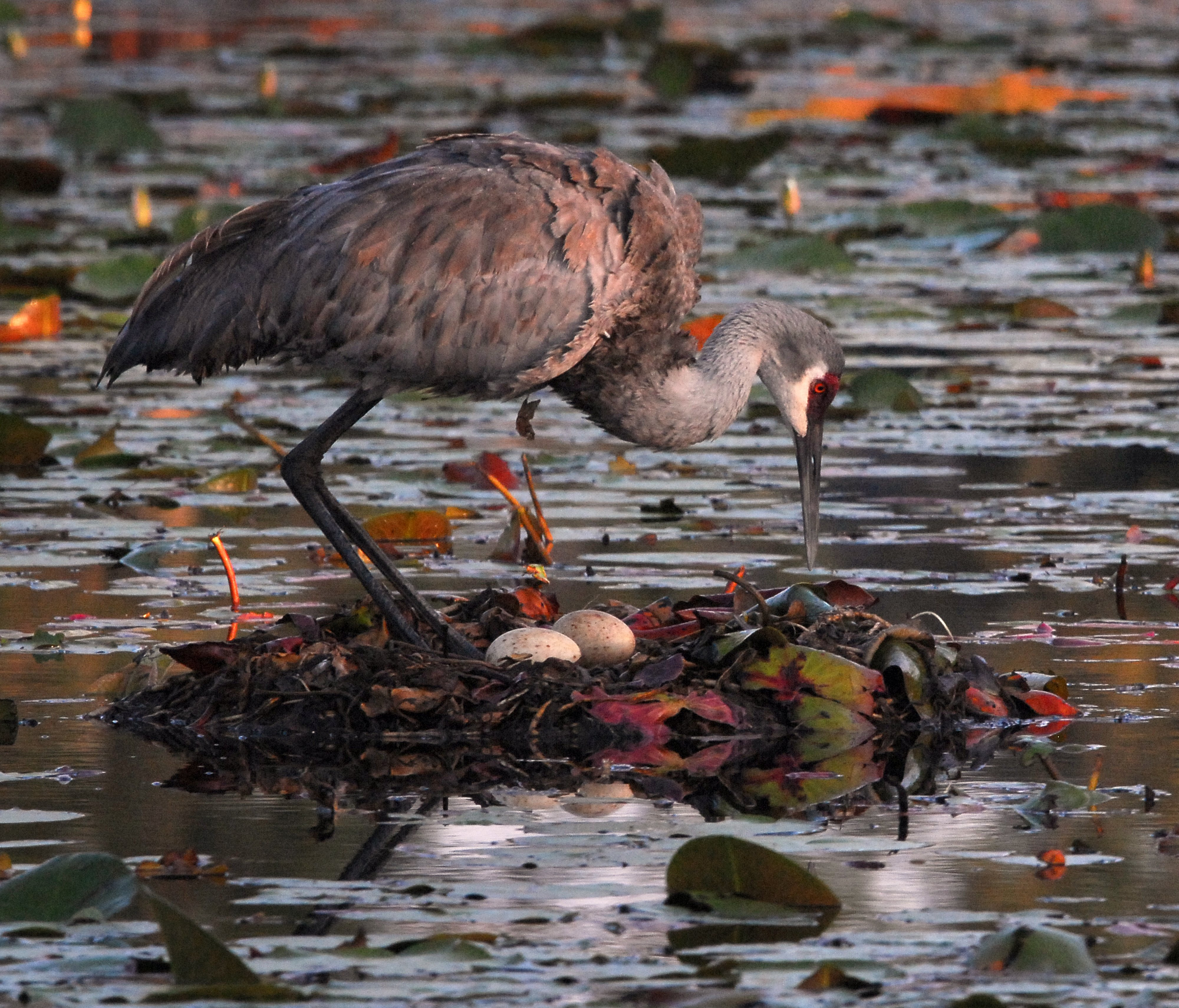 Made Explore March19,2011 #129. © Andrea Westmoreland